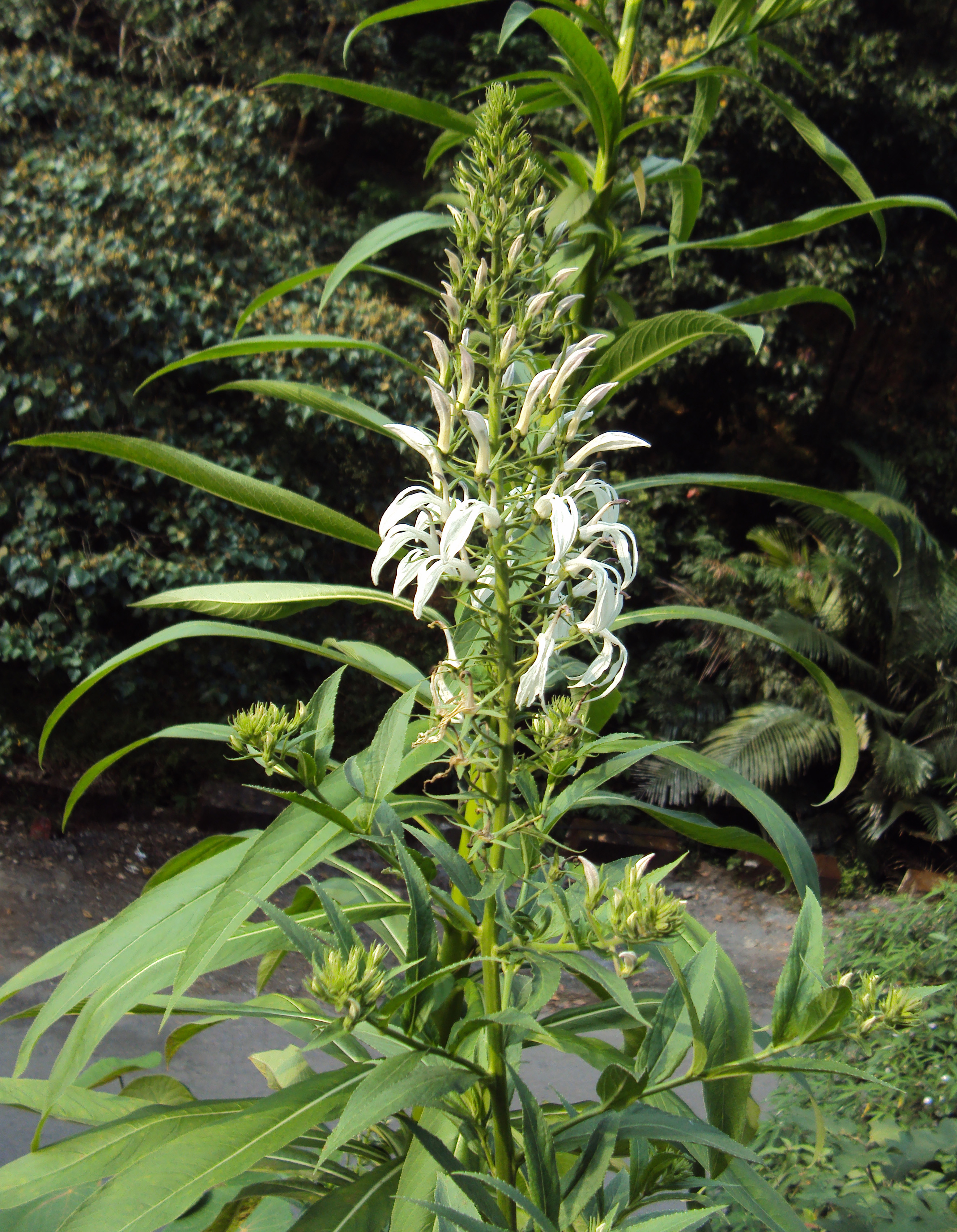 Lobelia nicotianifolia